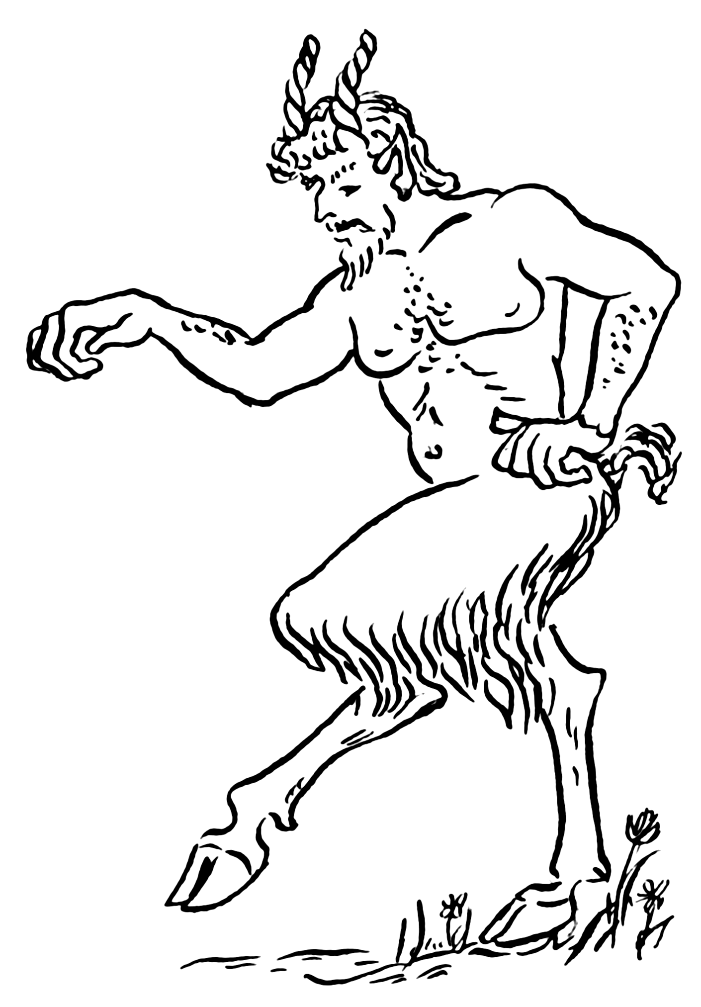 Line art drawing of a Faun